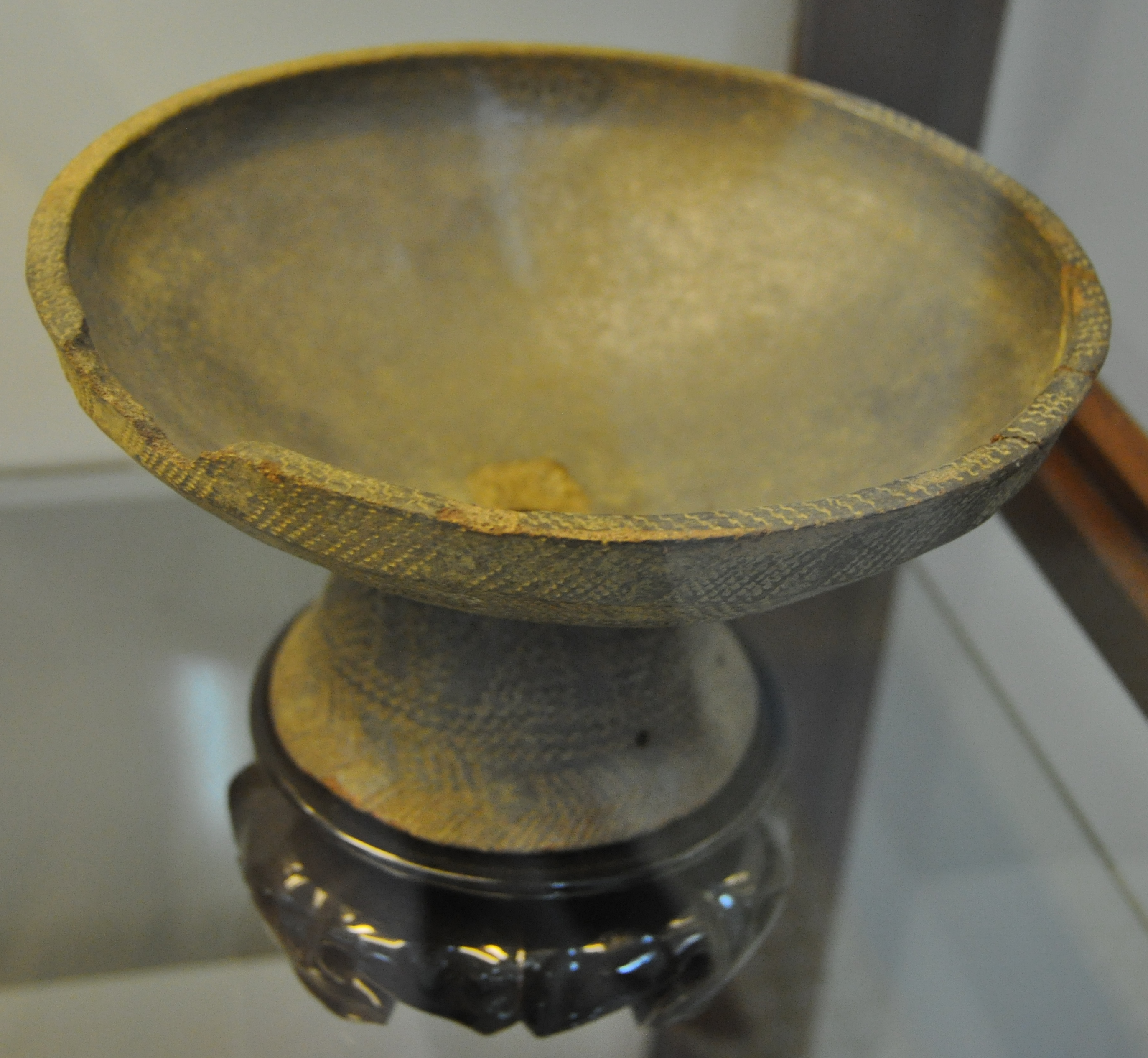 Trays - Terra cotta, Sa Huynh culture Collections of the Museum of Vietnamese History Circa 2,500~2,200 years ago